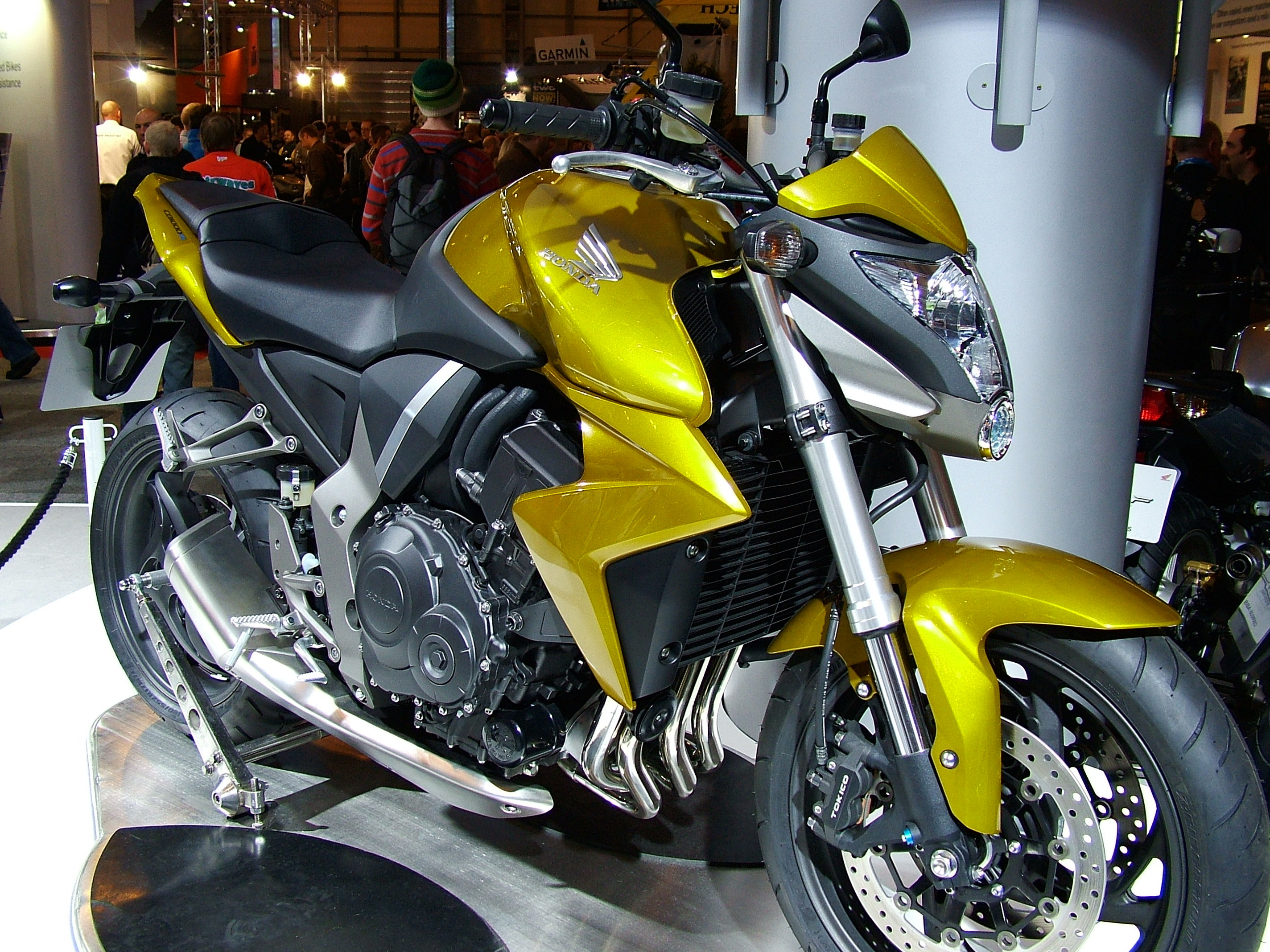 Honda CB1000R @ NEC Motorbike and Scooter Show 2007